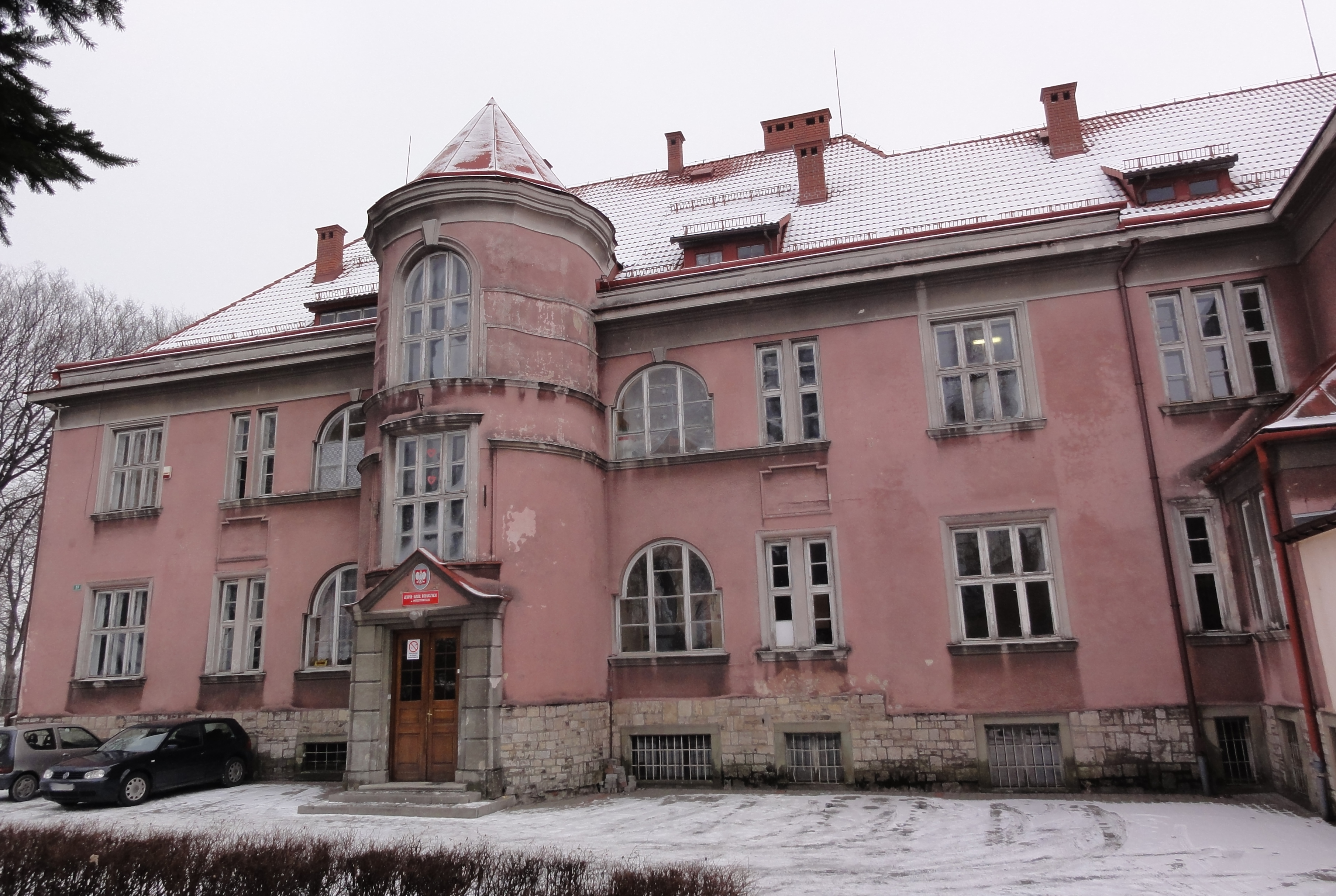 Main building of the agiculture school in Międzyświeć (opened 1927)